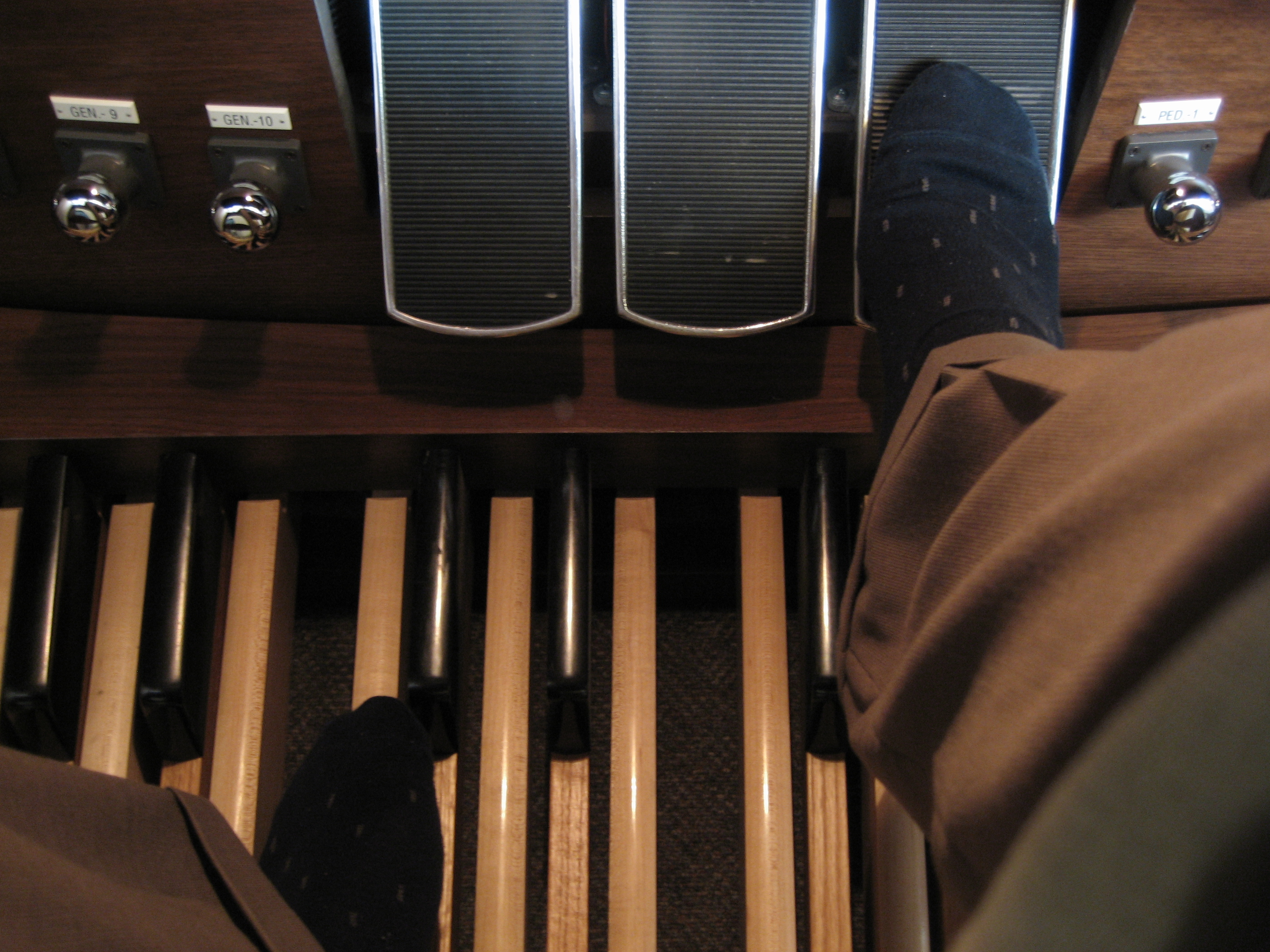 Expression and Crescendo pedals with pedalboard and toe pistons on Allen Protege AP-31 digital organ